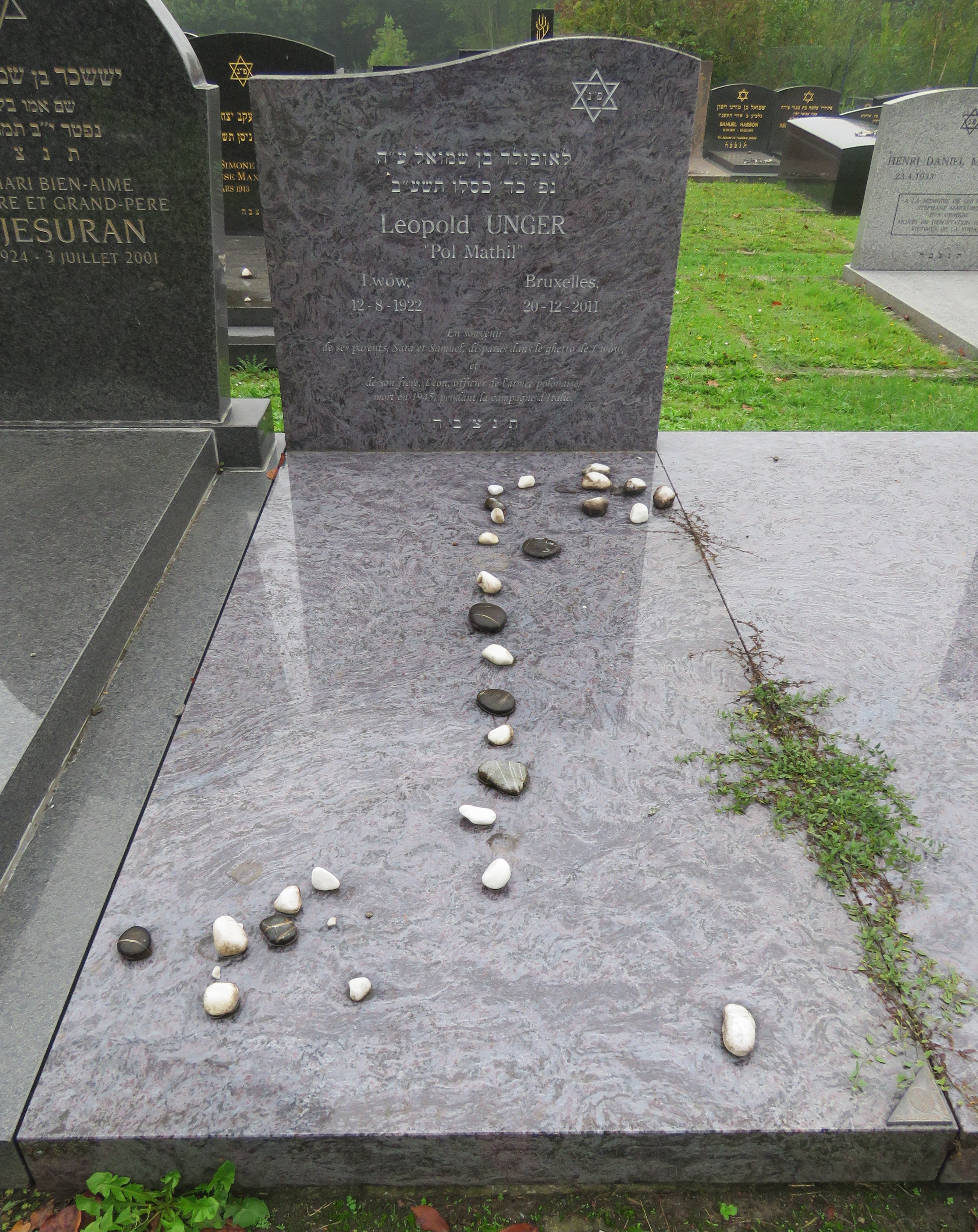 Leopold Unger’s grave – Kraainem Communal Cemetery in Kraainem, Halle-Vilvoorde, Flemish Brabant (Vlaams-Brabant), 1950 Belgium / Leopold Unger (1922-2011), Polish journalist and essayist, political emigrant. He lived in Poland, and since 1969 in Belgium.